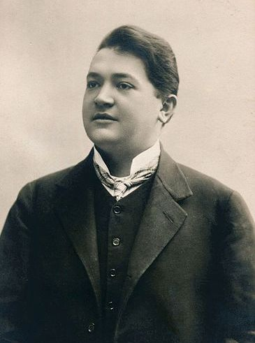 Bela Környei (1875 -1925) Hungarian opera singer (tenor) photo was taken: 1908. Photo: Jozsef Kossak (1855-1922)